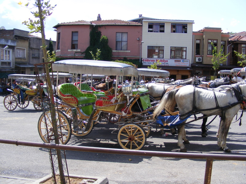 Horses on the island of Buyukada